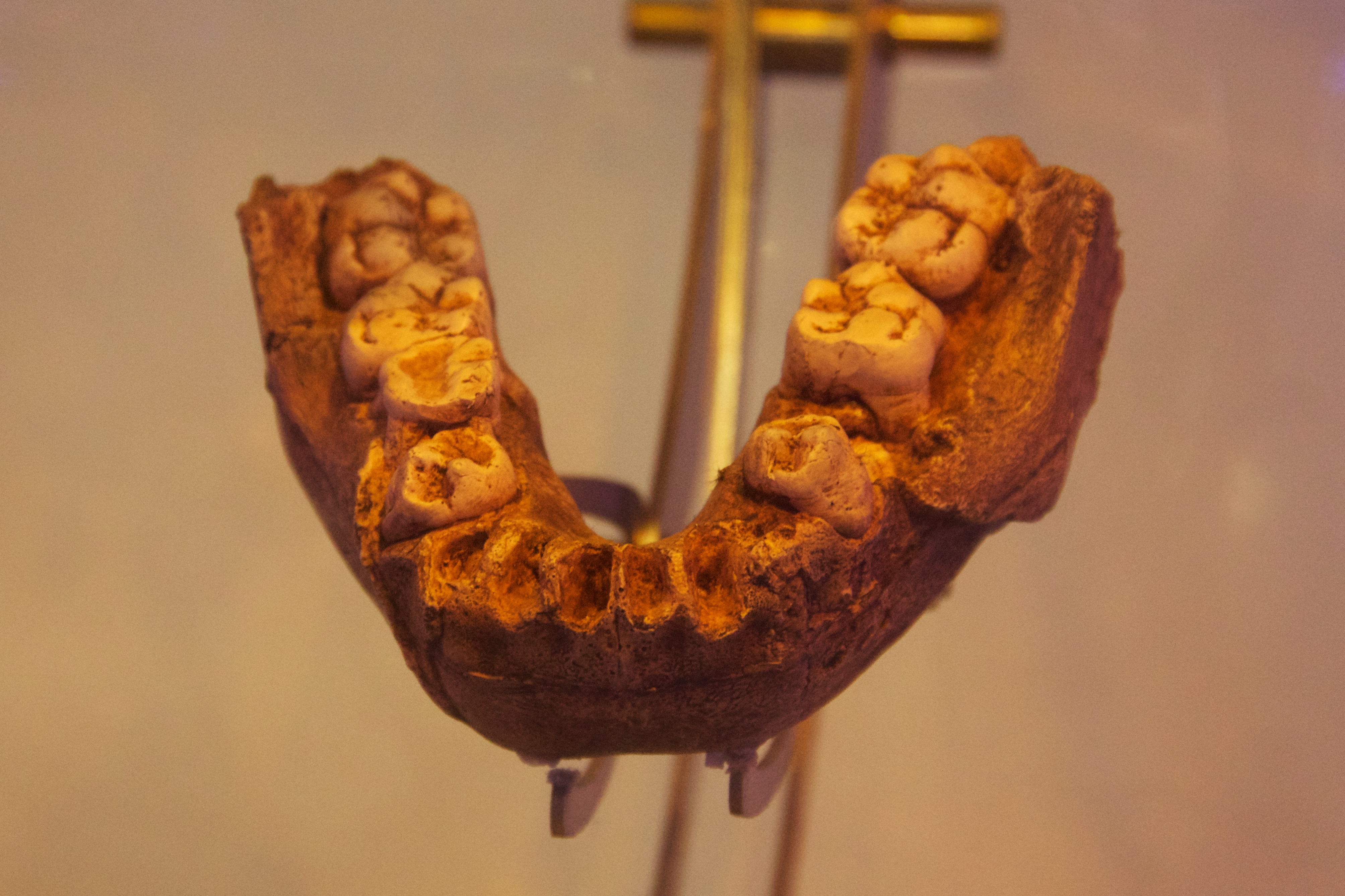 Australopithecus africanus, lower jaw of boy, (MLD 2), Makapansgat, 1947